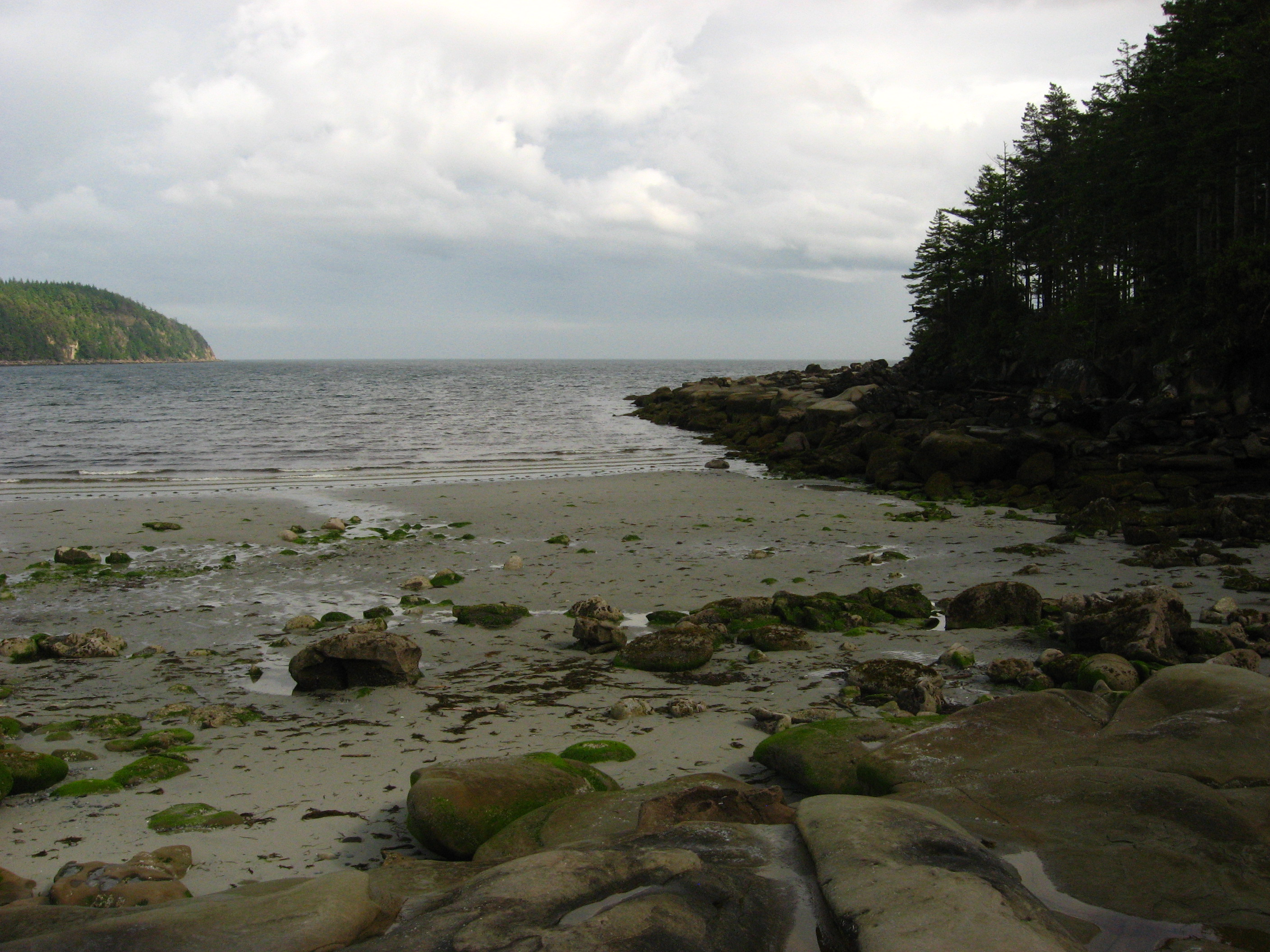 Looking out at Tribune Bay on Hornby Island from the public beach just next to the Provincial Park.